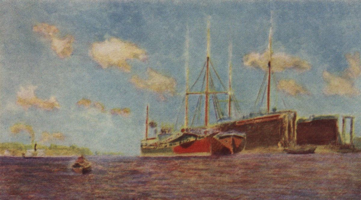 A fresh breeze. On the Volga (study by Isaac Levitan, 1890)